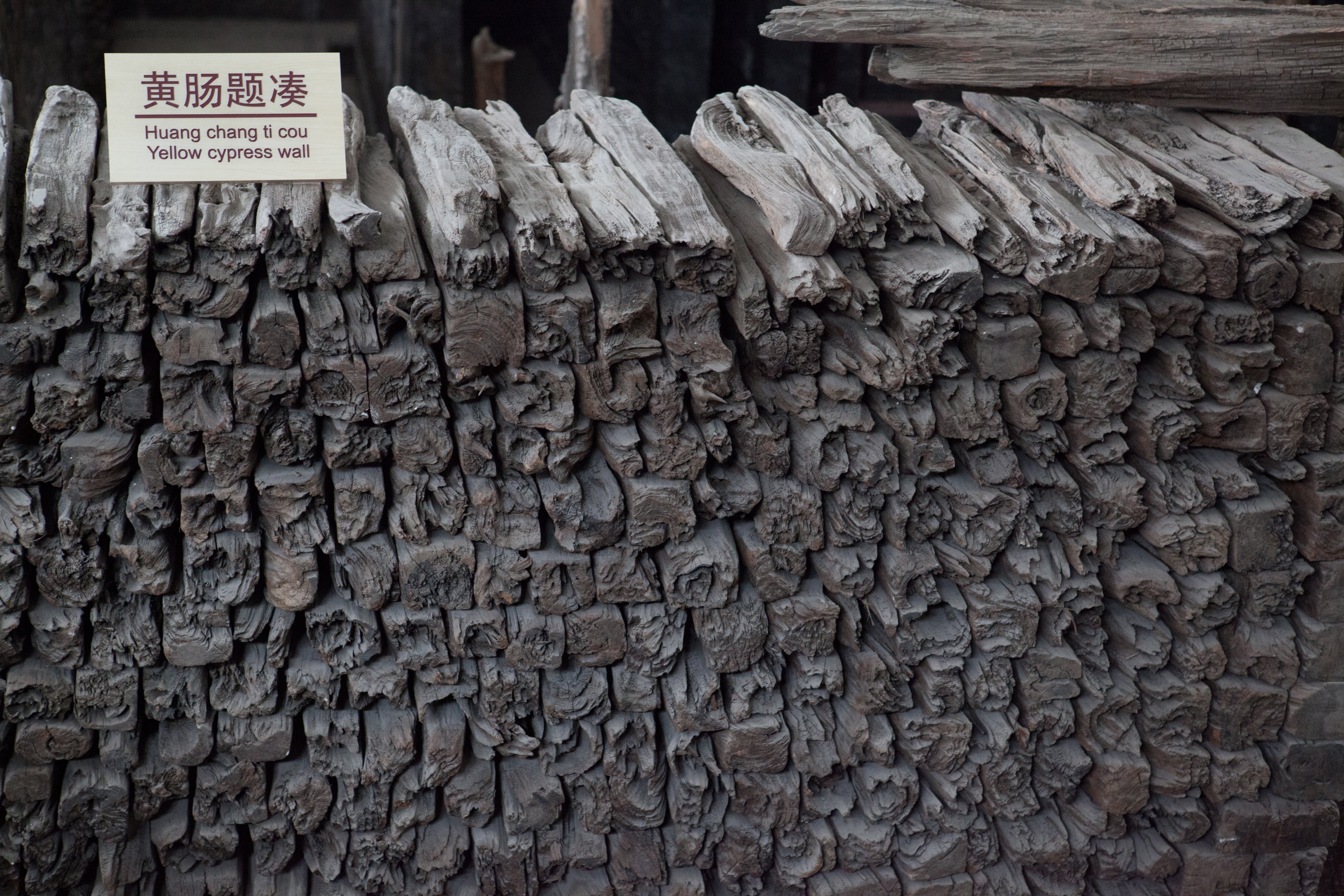 Huangchangticou is a form of constructing underground tombs in ancient China. Only the core wood of cypress trees are used, and they are laid in such a form that their root-side are all facing inwards toward the coffin. This picture shows a rare specimen of Huangchangticou that is found in Dabaotai (ca. 45 BCE), a Han Dynasty tomb in Beijing, China.